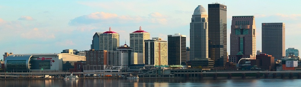 Skyline of Louisville, Kentucky from April 2011.